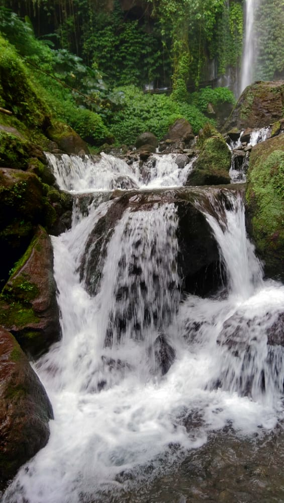 Jumog waterfalls